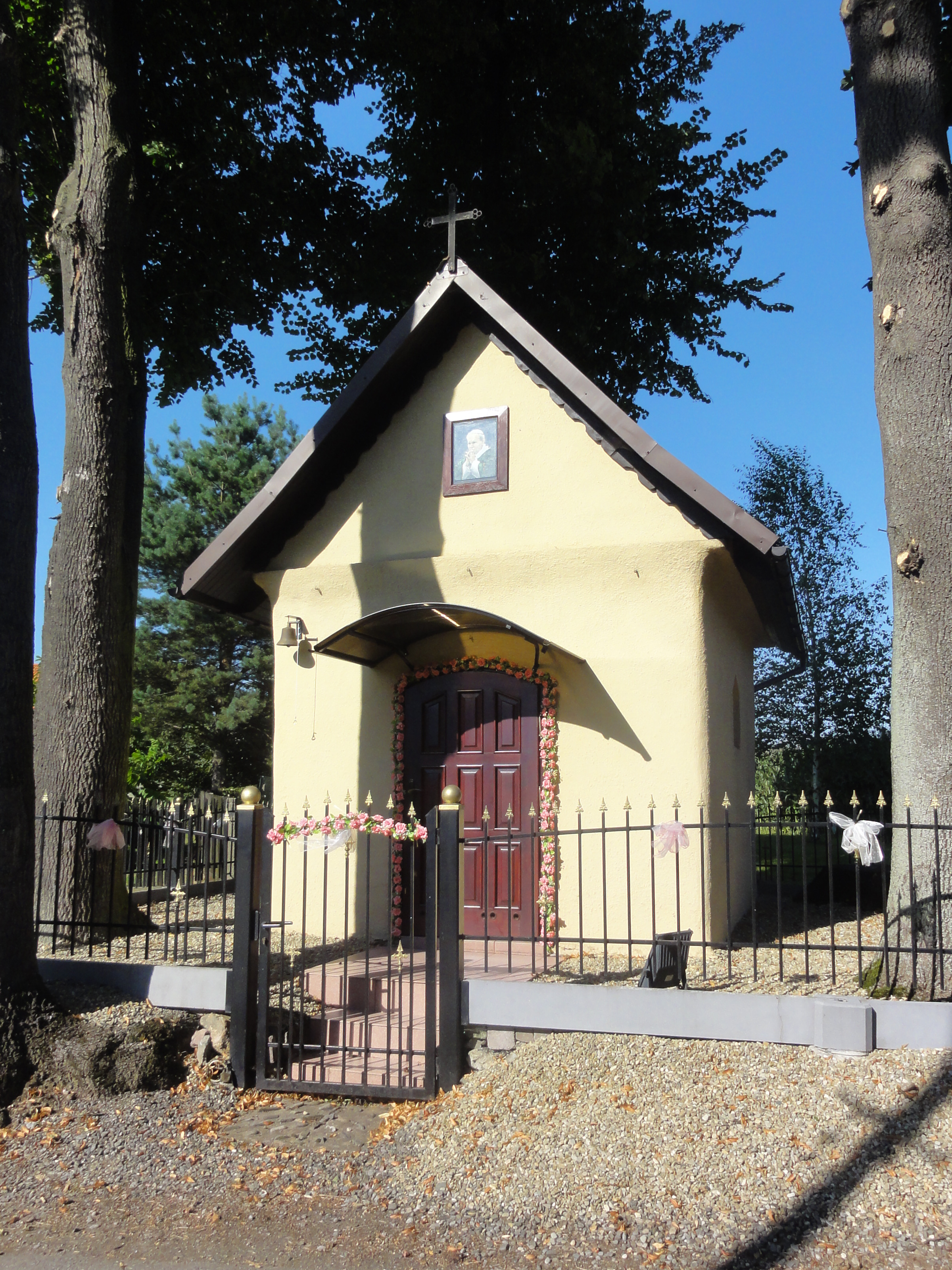 Wayside chapel in Smolice